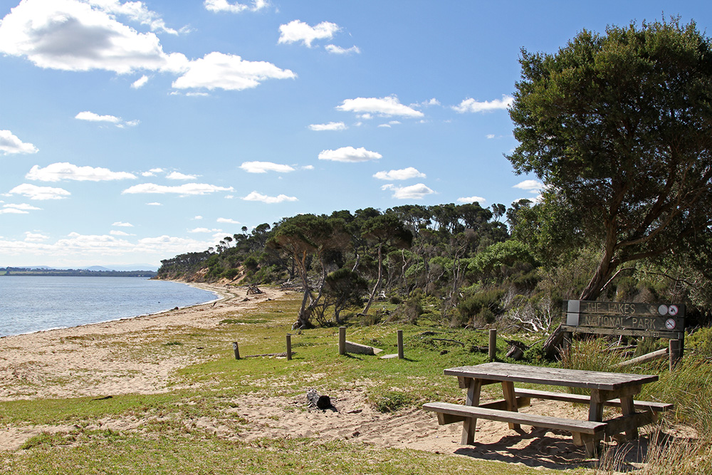 Boundary of the The Lakes National Park on Pelican Bay (Lake Victoria) from National Park Rd, Loch Sport, Victoria, Australia.